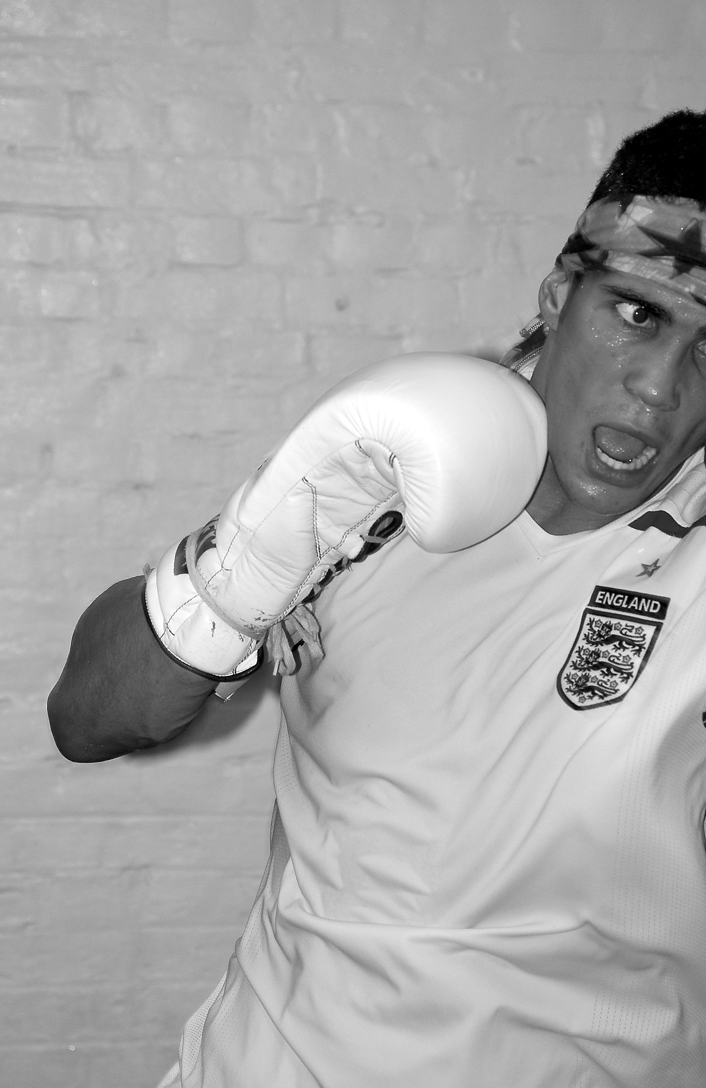 Anthony Ogogo training wearing an England football shirt in an image titled 'Focused Power'